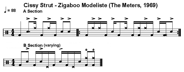 Cissy Strut (The Meters, 1969) drum groove, played by Zigaboo Modeliste.